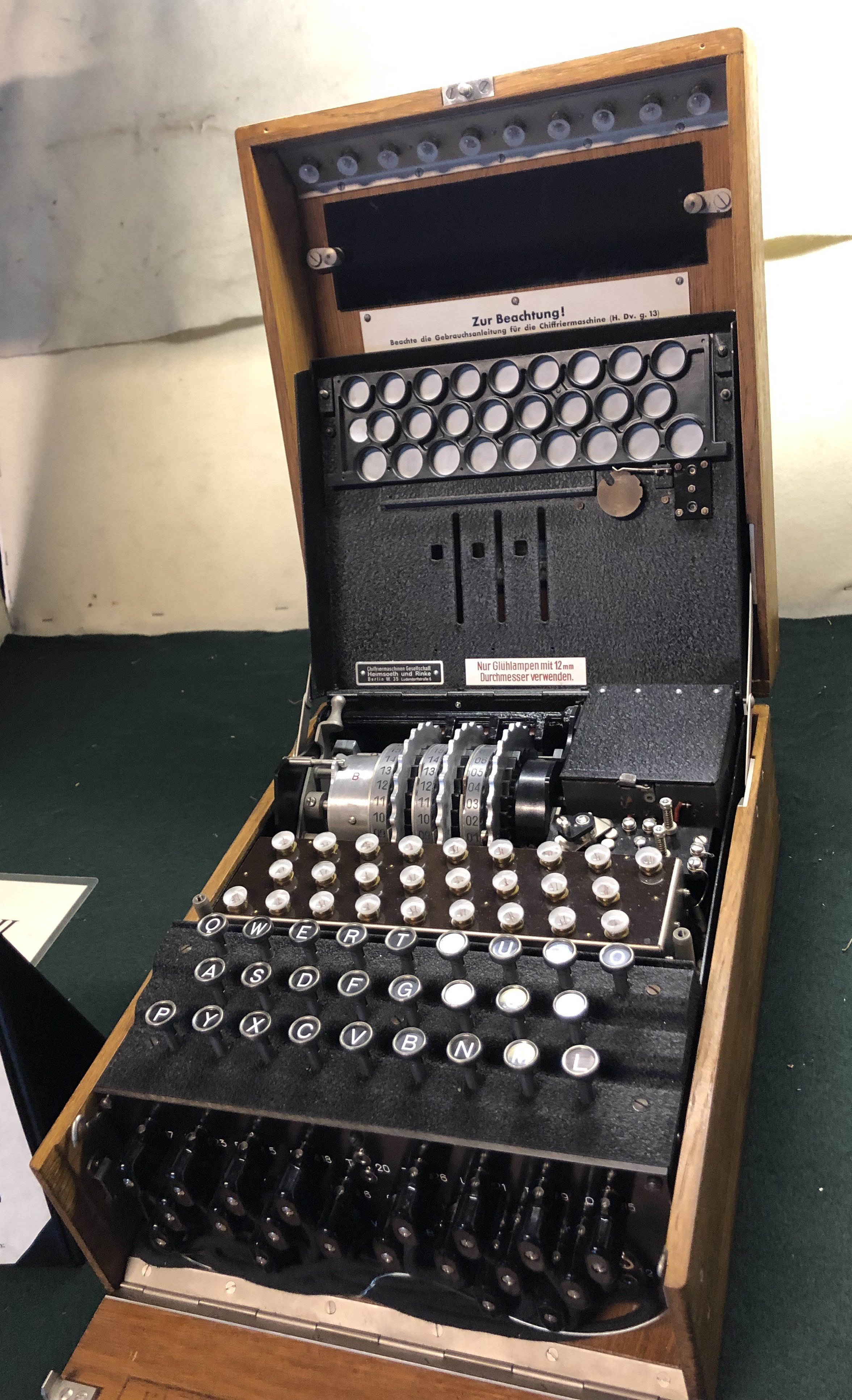 Enigma Machine A16672. Item on display at the MIT Flea Market, held monthly from April to October on the MIT campus.